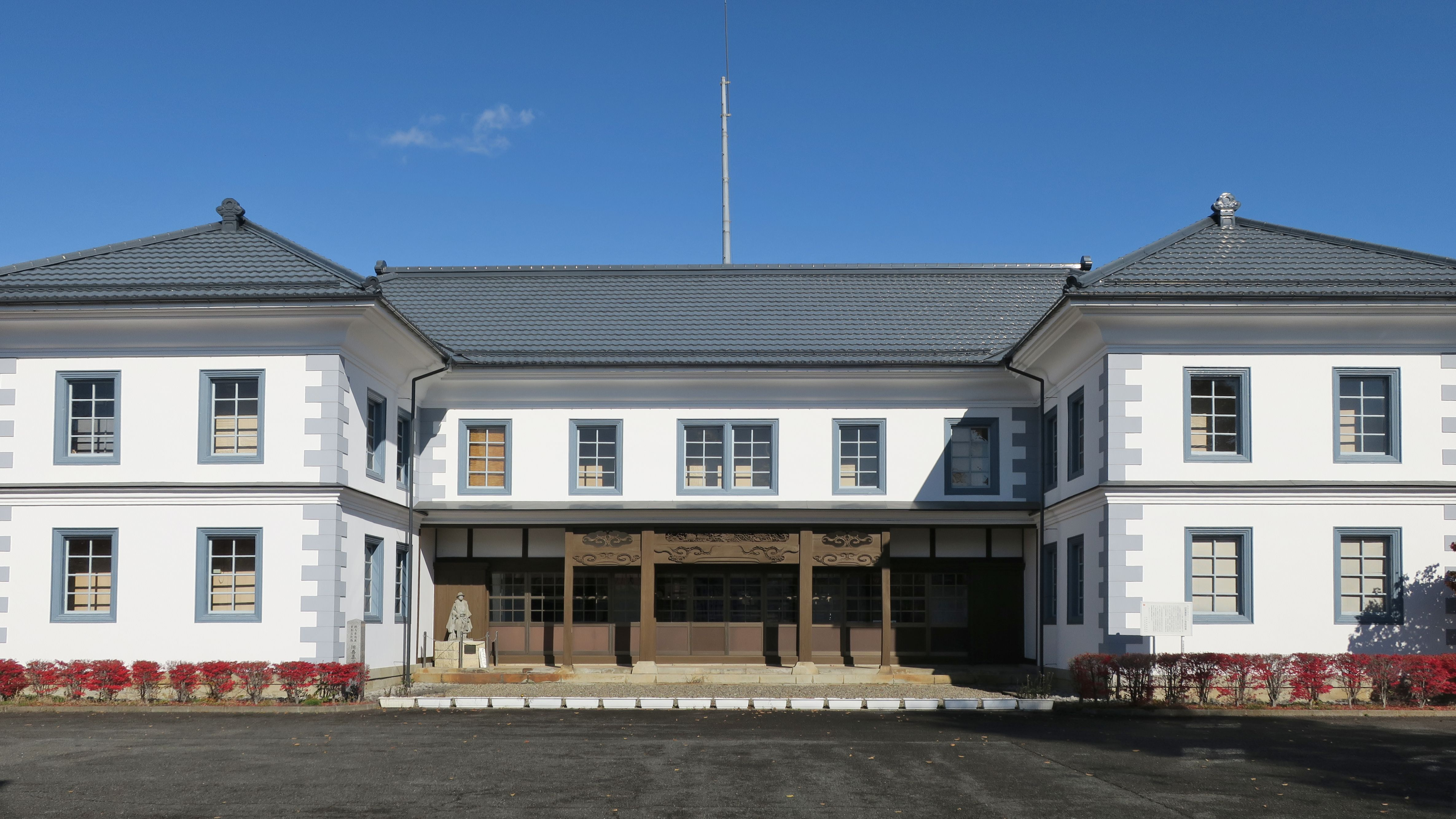 Nakanojo Museum of Folk and History 'Musée' (Nakanojō).